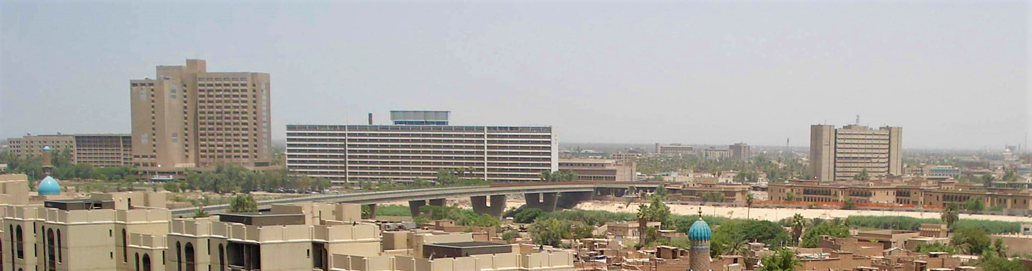 Baghdad's Medical City, as seen from one of the buildings on Haifa Street